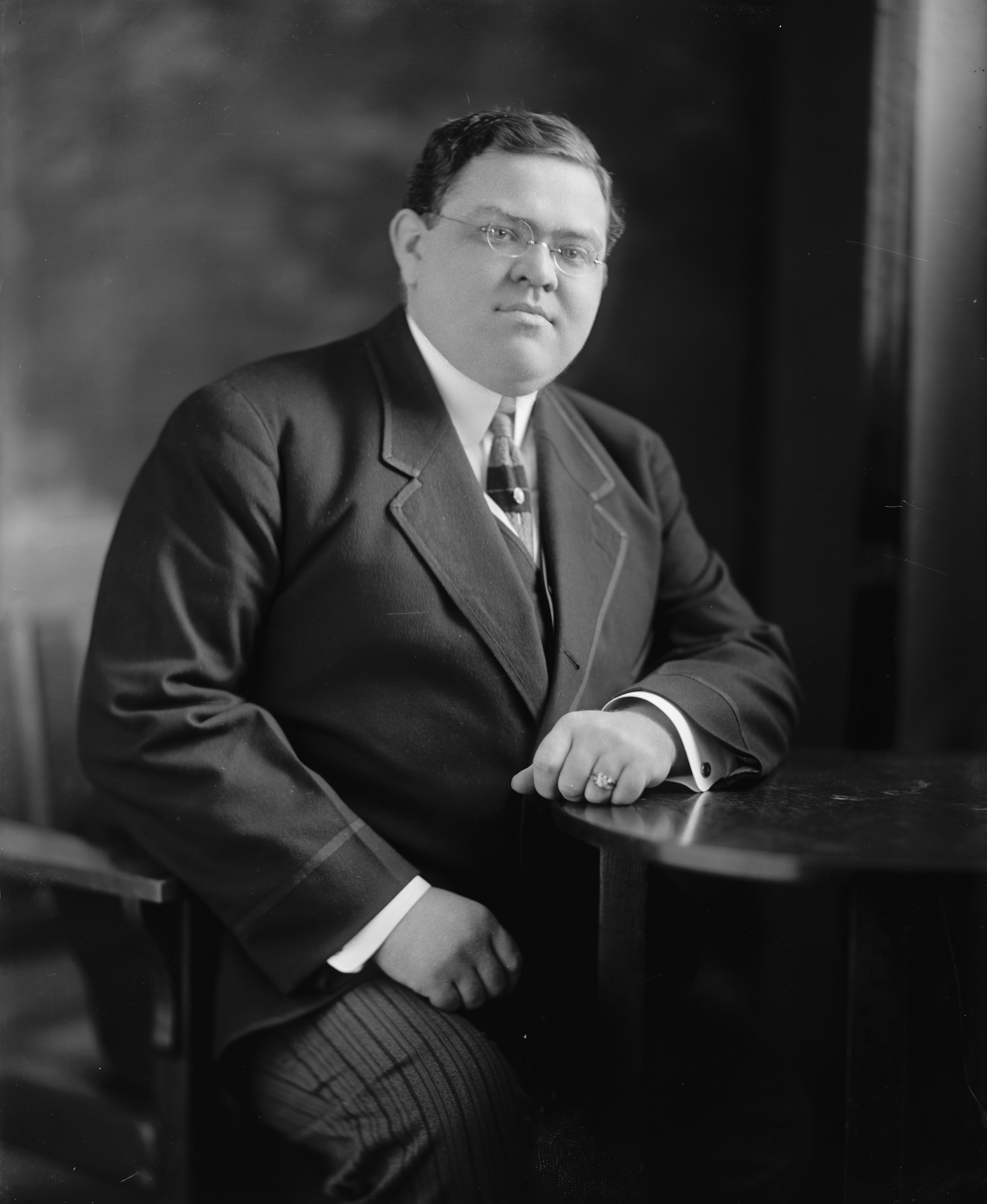 Daniel J. Griffin, Congressman from New York.